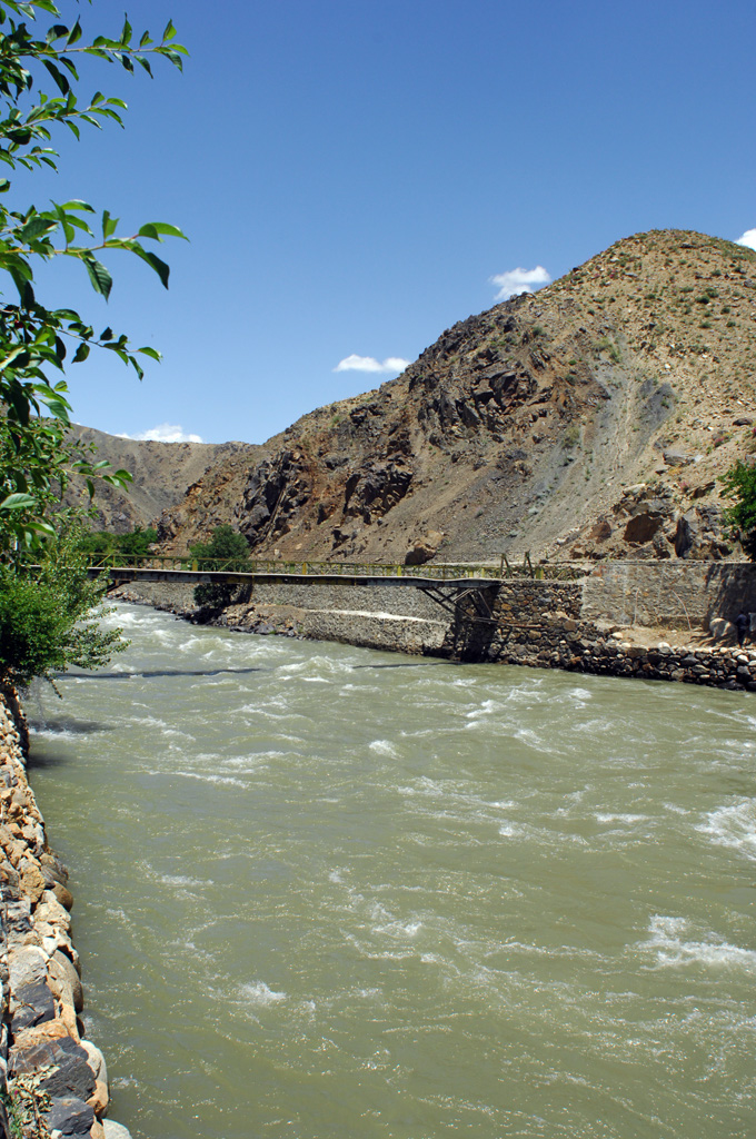 River in Panjshir Province of Afghanistan.